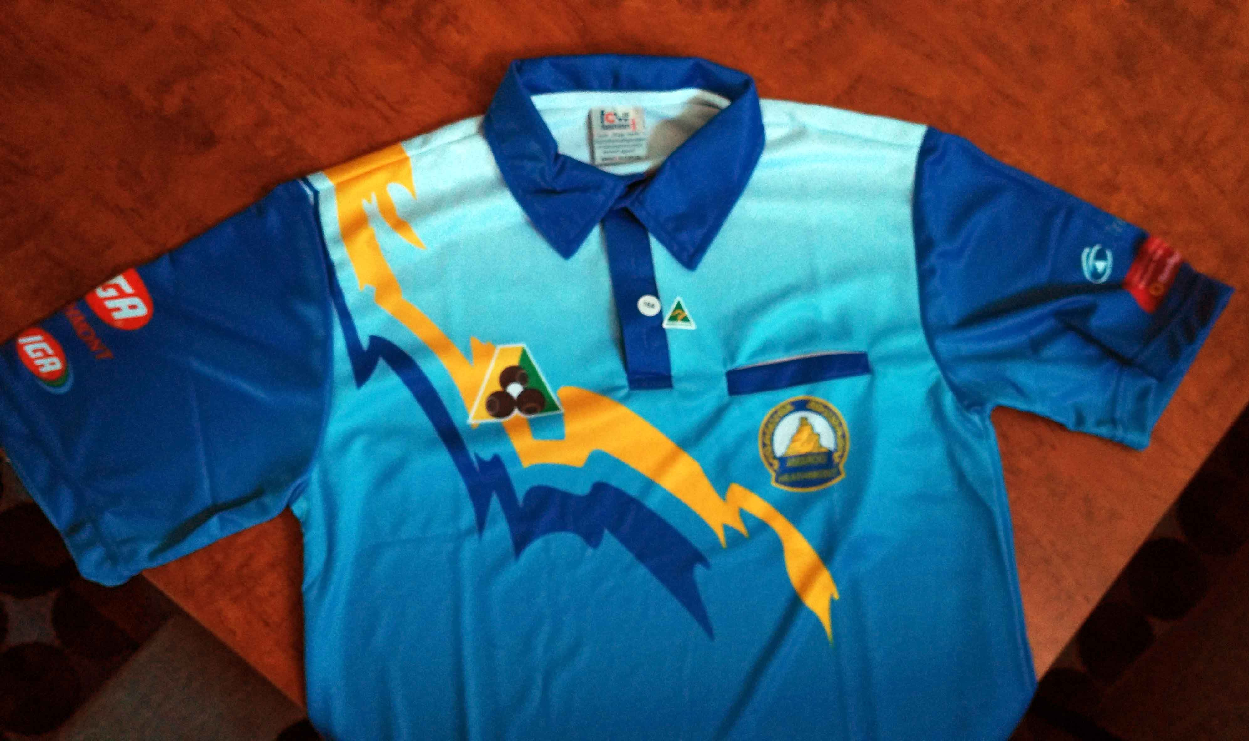 Heathmont Bowl's Club players shirt